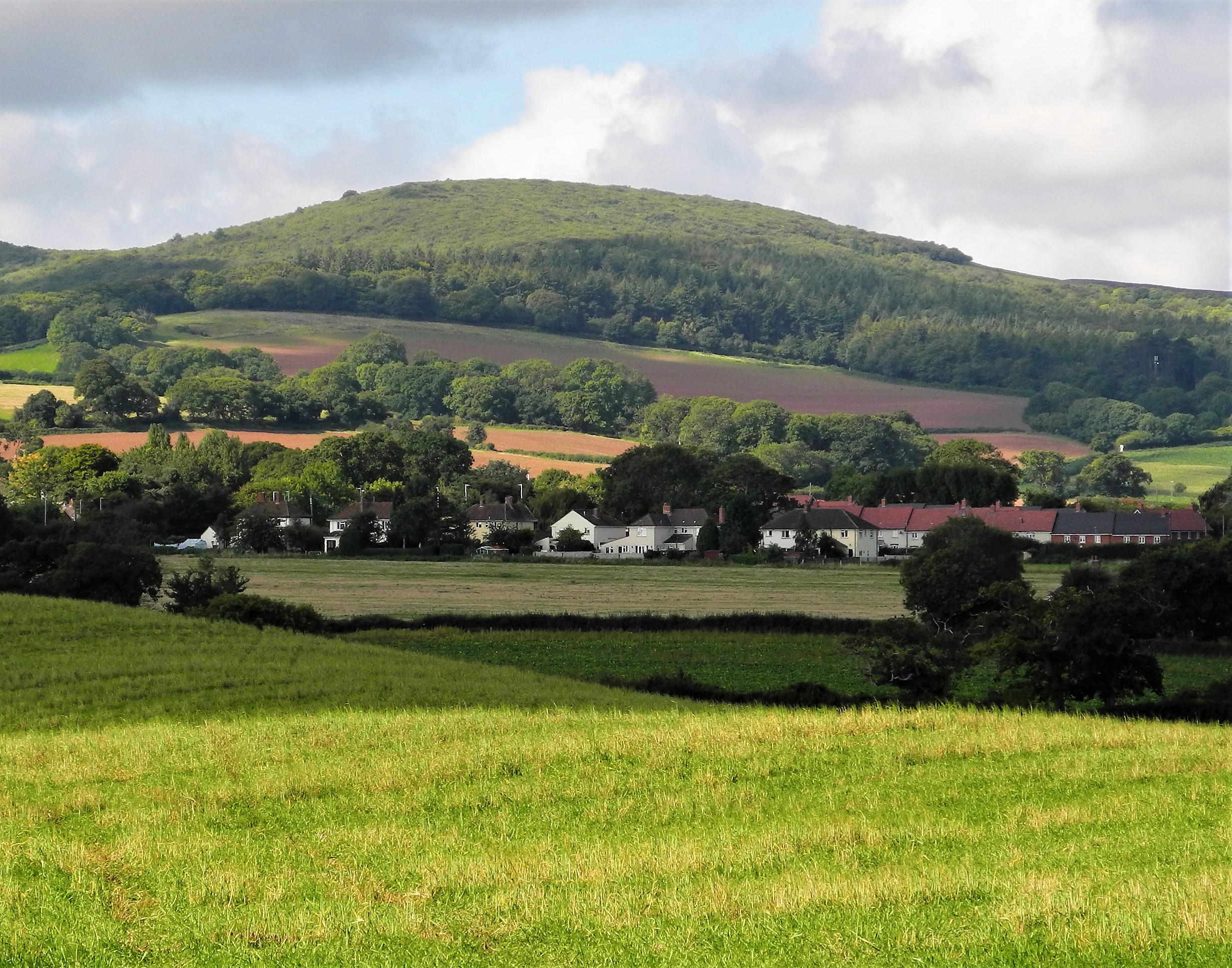 The hill of Dowsborough site of an Iron Age fort, seen from just north of the village of Nether Stowey in Somerset, England.